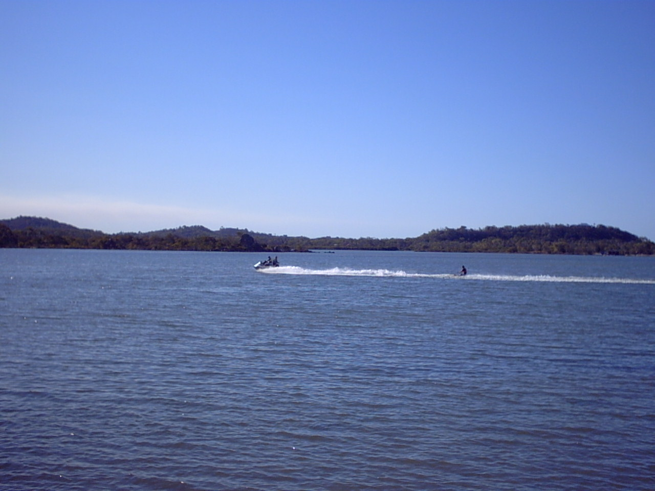 Causeway Lake with a jetski towing a wakeboarder, 2009